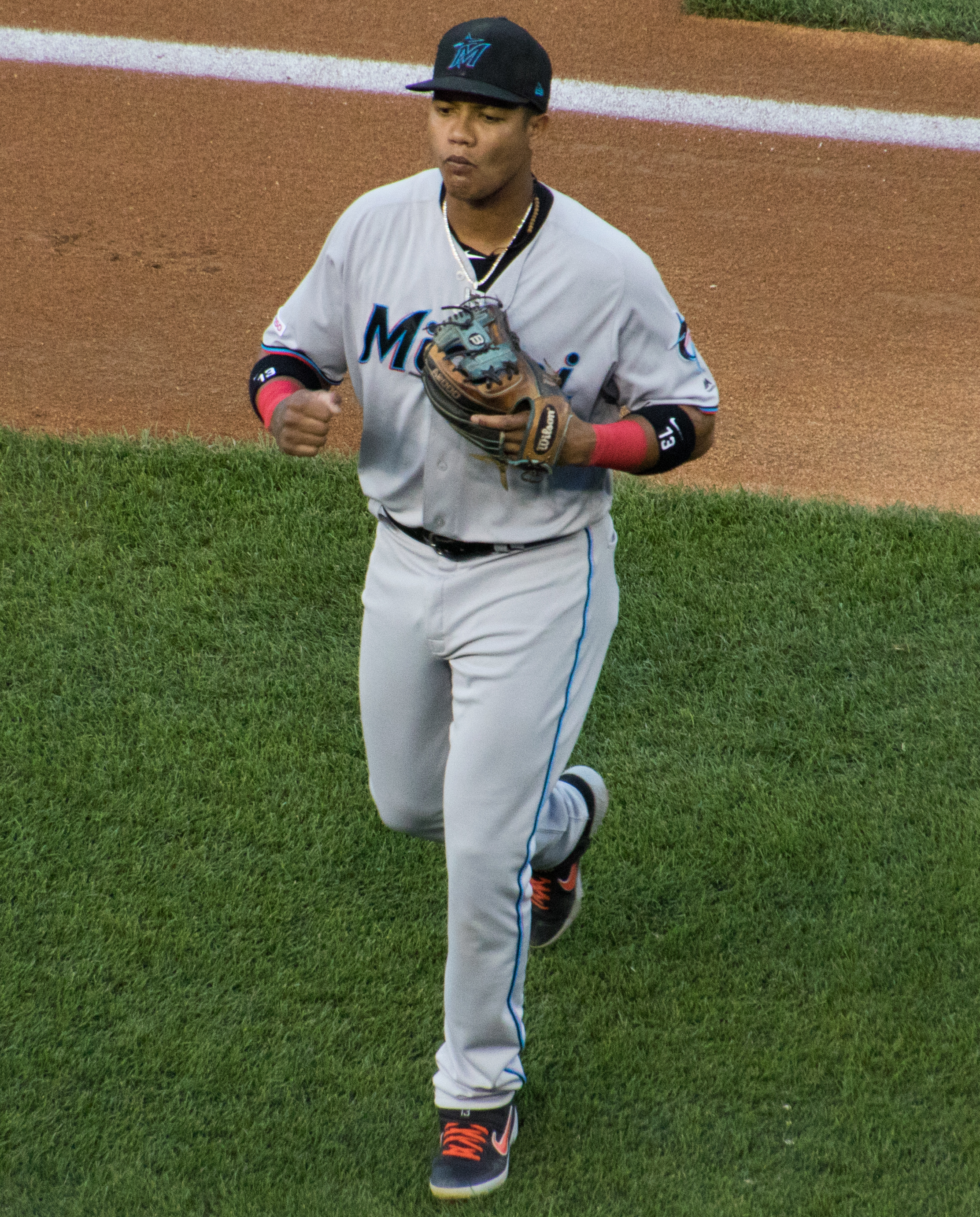 Starlin Castro